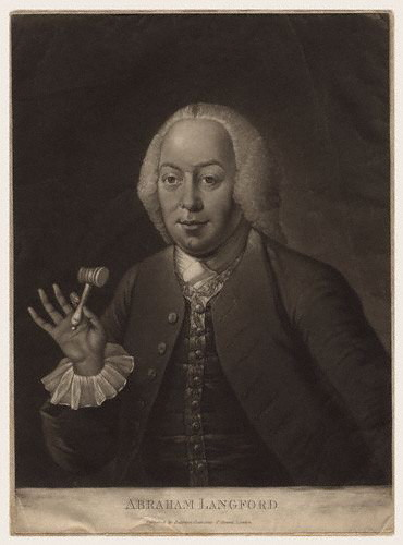 Portrait of Abraham Langford (1711–1774), British auctioneer